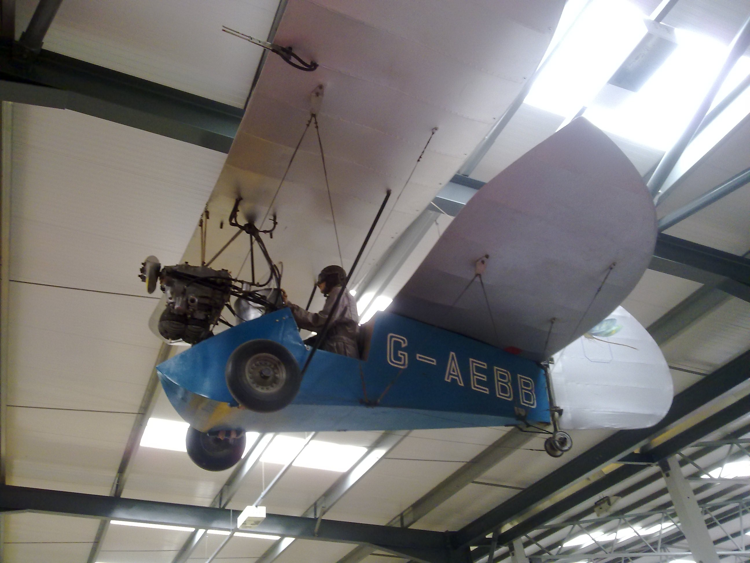 Mignet Pou du Ciel ("Flying Flea") (G-AEBB) at the Shuttleworth Collection